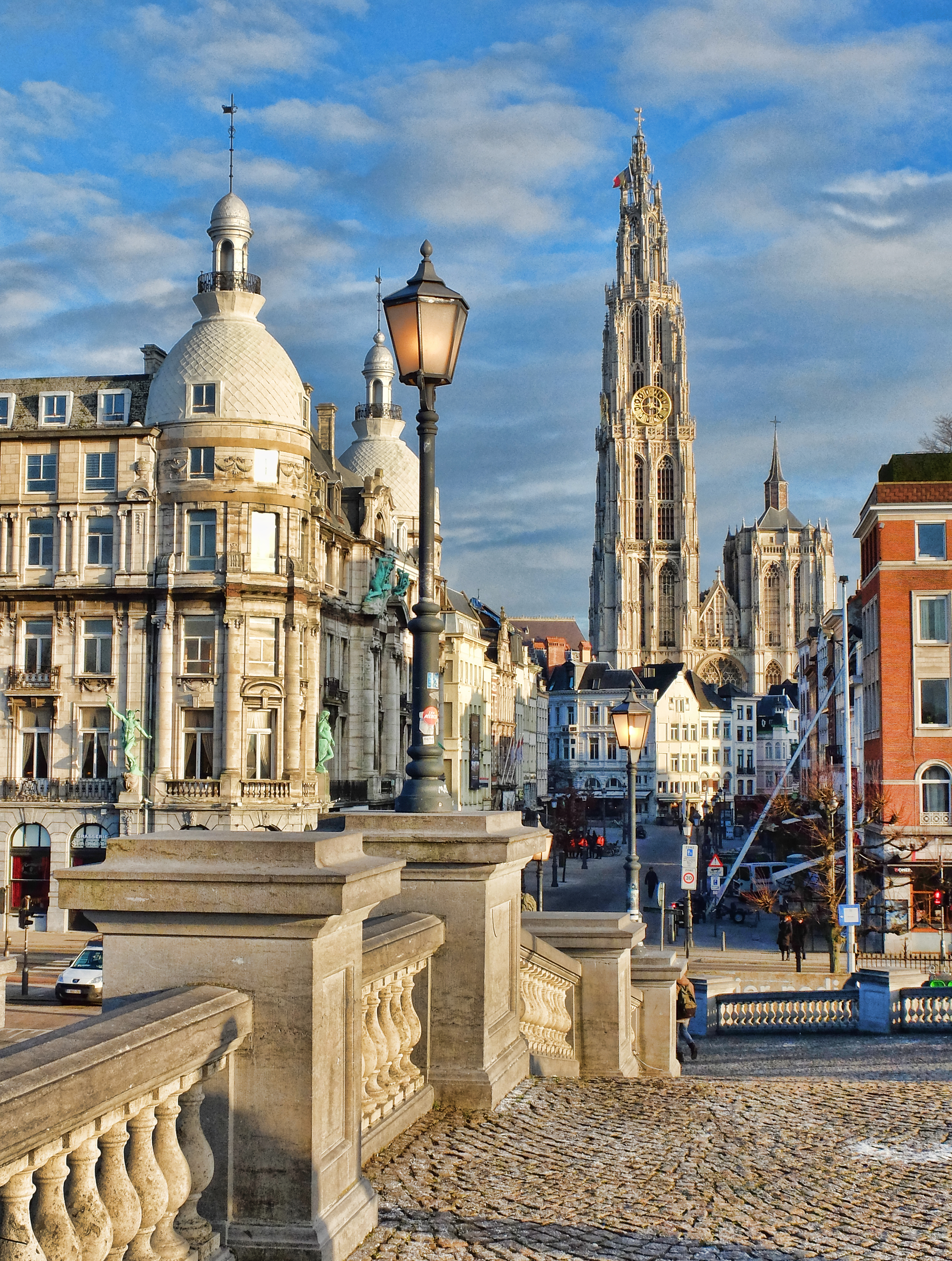 Antwerp Suikerrui and the Cathedral of Our Lady